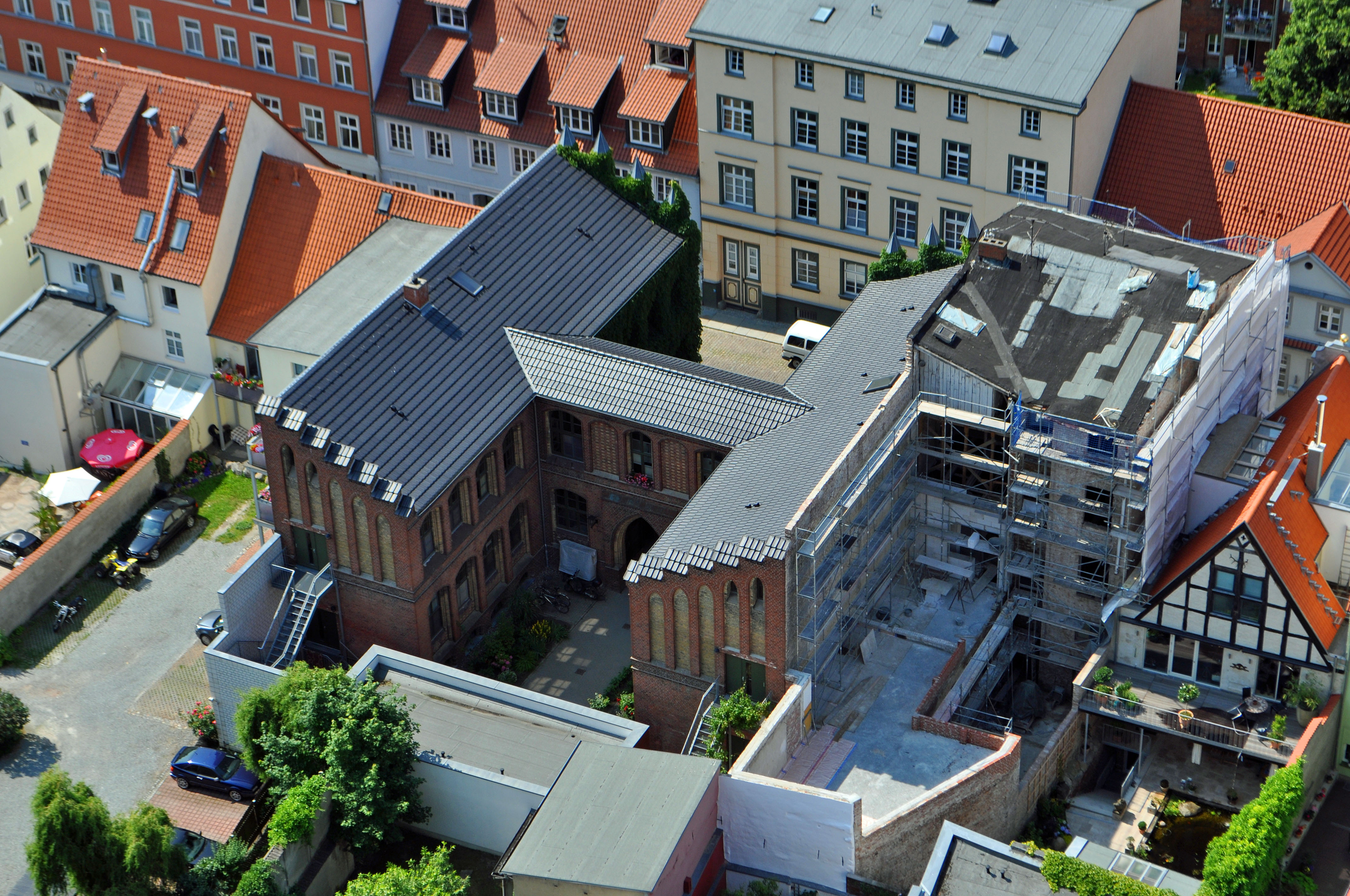 Fotografiert vom Turm der Marienkirche in Stralsund. Schule in der Tribseeer Straße 12. This is a photograph of an architectural monument.